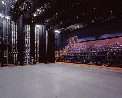 The Blue Room studio theatre and Dance House Cardiff, the Home of National Dance Company Wales